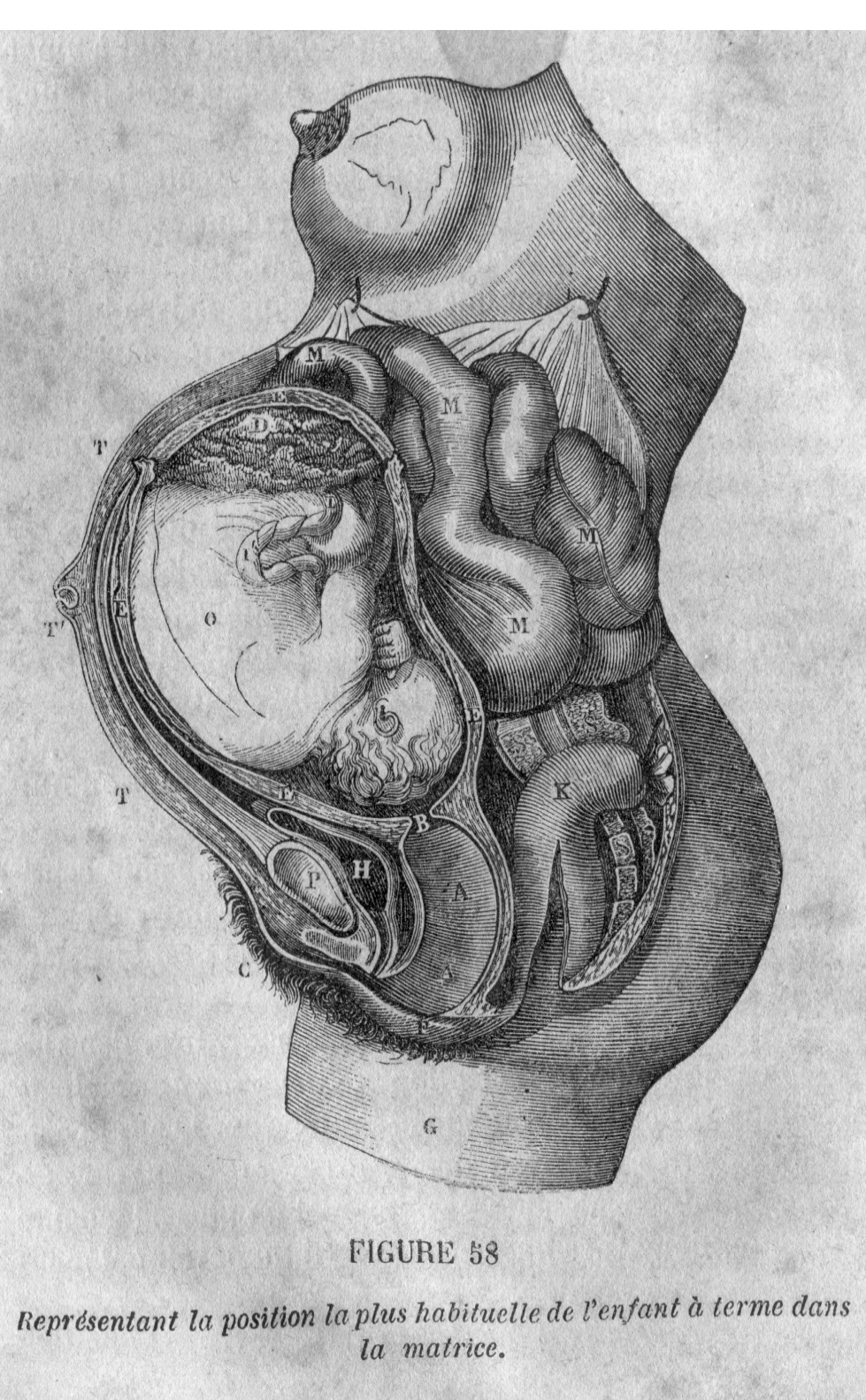 Sectional engraving of a pregnant woman showing the fetus into the womb : the head is toward the bottom of the mother (used in the article "pregnancy"